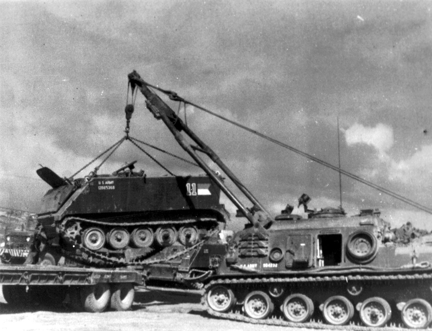 M88 HEAVY RECOVERY VEHICLE LOADS DAMAGED APC, JANUARY 1971. This versatile vehicle was the workhorse of the armor recovery fleet.